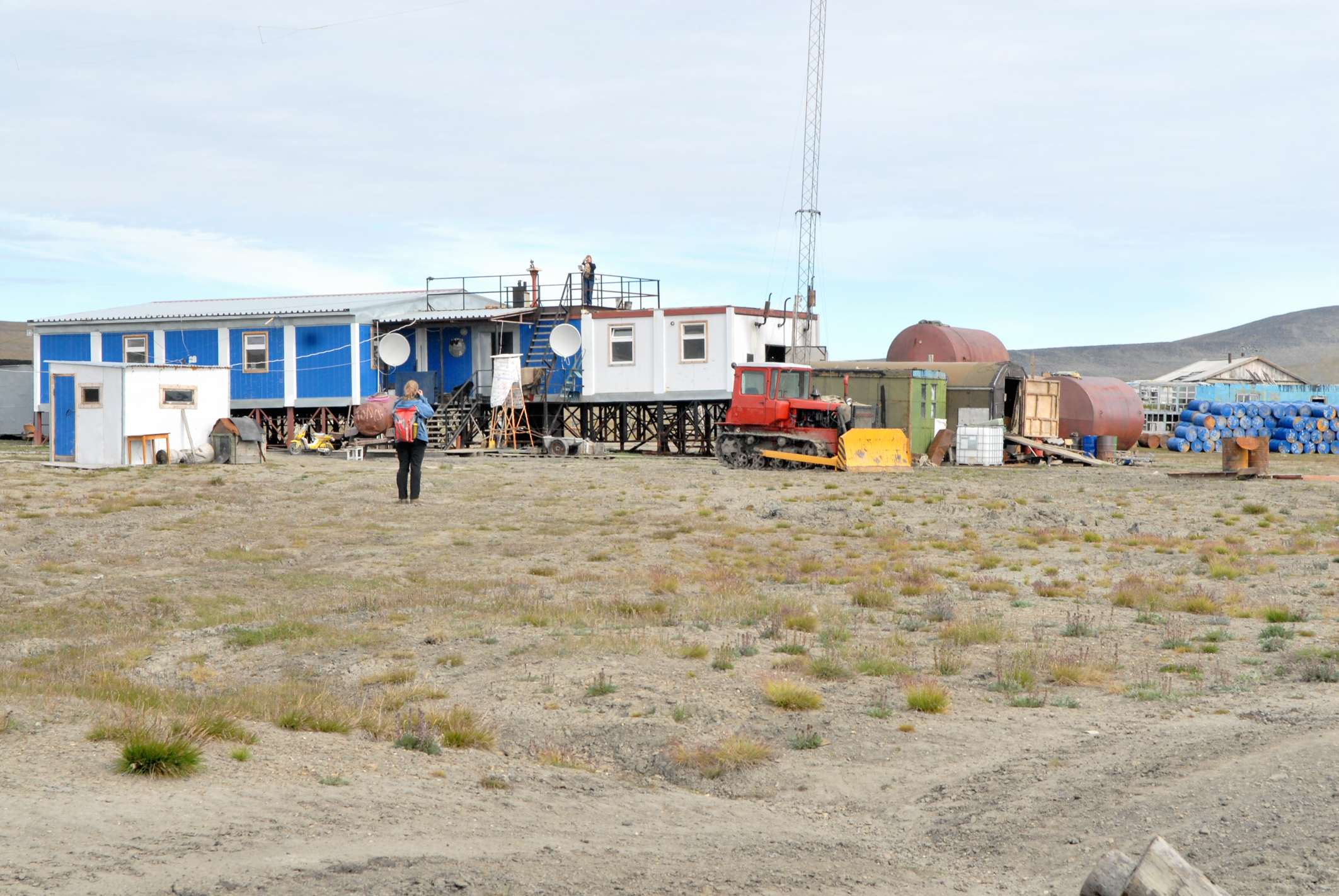 Ushakowskoje Weatherstation (Wrangel Island, Chukchi Sea, Russia)